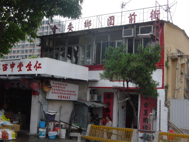 Nga Tsin Wai Tsuen, last walled villages left in the urban built-up areas of Hong Kong.